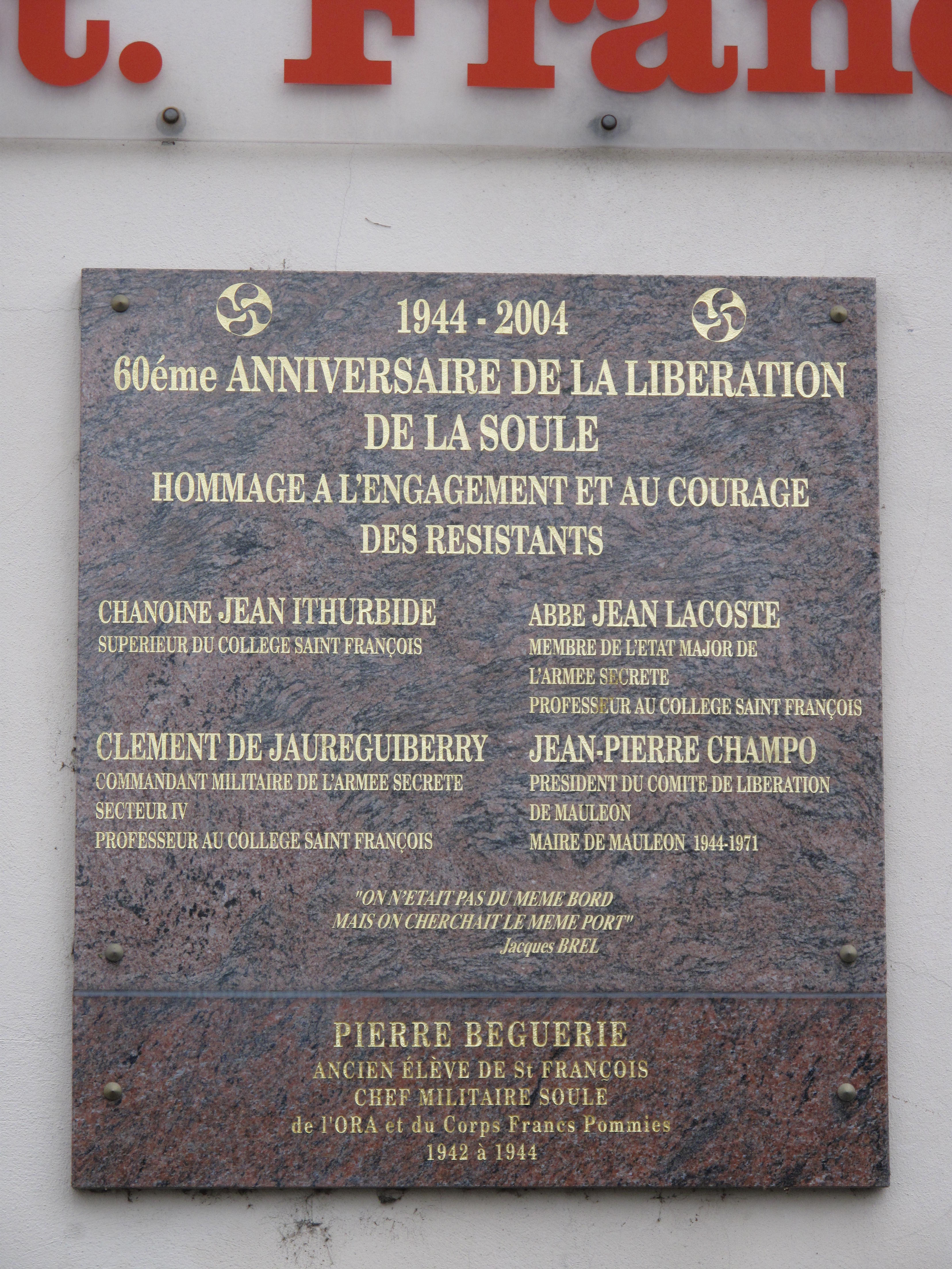 Plaque in memory of the liberation of the basque province of Soule. On the wall of the college Saint-François in Mauléon-Licharre, (Pyrénées-Atlantiques, France).